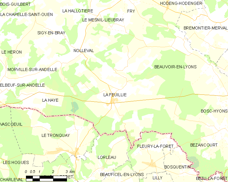 Map of French municipality La Feuillie